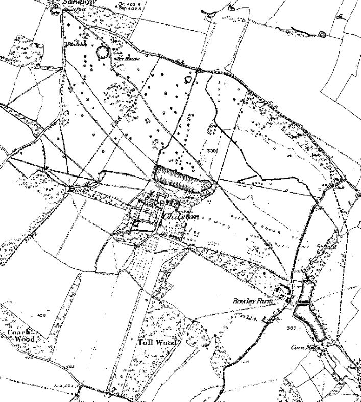 Ordnance Survey Map of Chilston Park, Boughton Malherbe, Kent